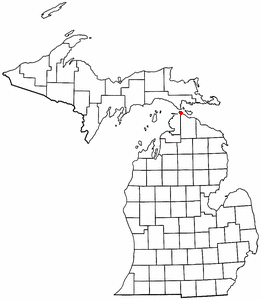 Mackinaw City, Michigan. Adapted from Wikipedia's Image:MIMap-doton-TraverseCity.PNG by Seth Ilys.